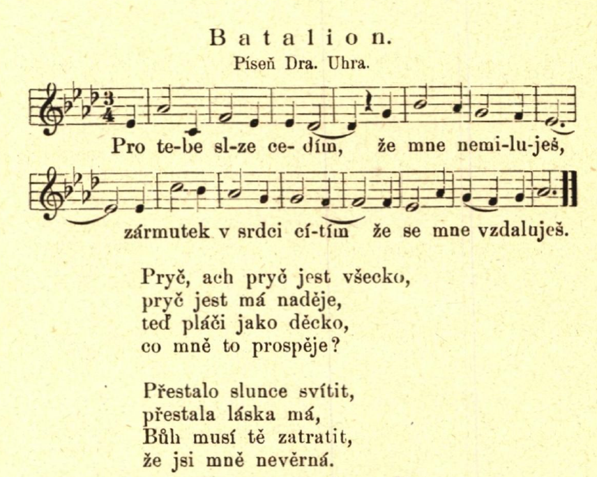 Score of a Czech-language "Batalion" song, attributed to a legendary alcoholic lawyer František Uher (1825-1870) and appearing in L. F. Šmíd's cabaret performance